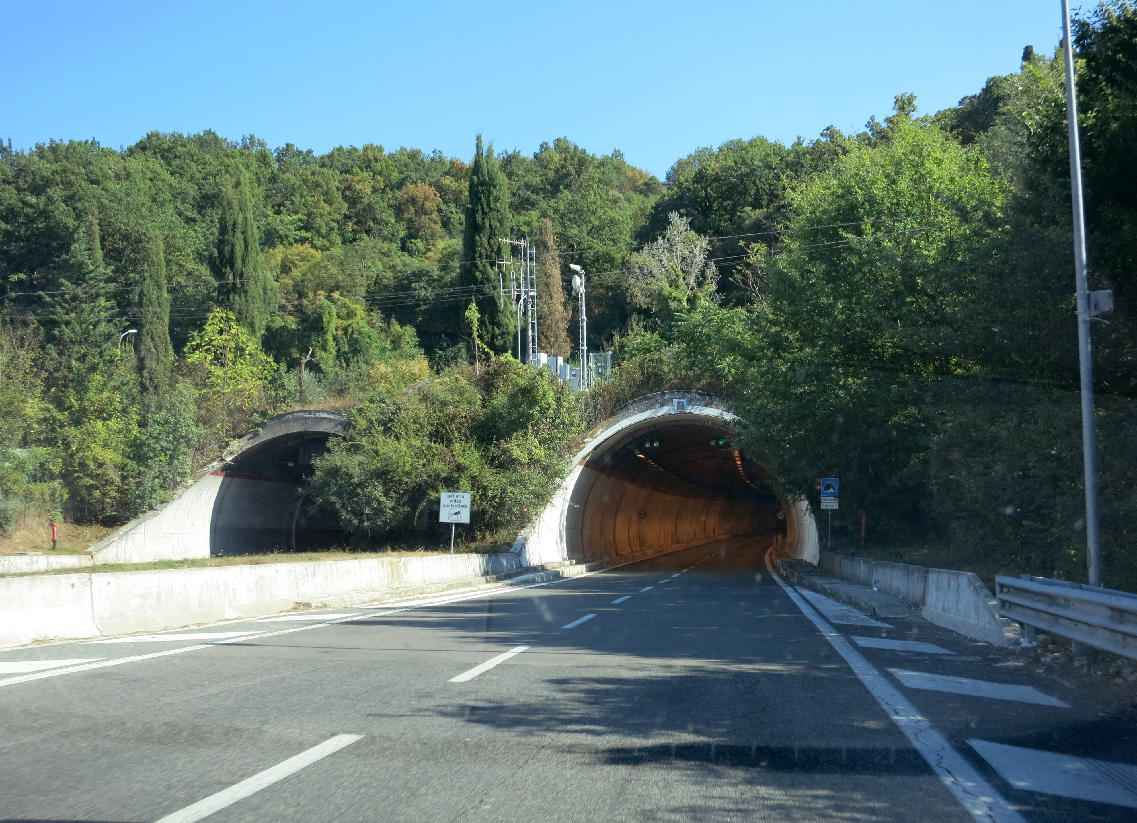 Italian State Road n. 4 Via Salaria - Colle Giardino tunnel, near Rieti - north portal of the south-heading tunnel